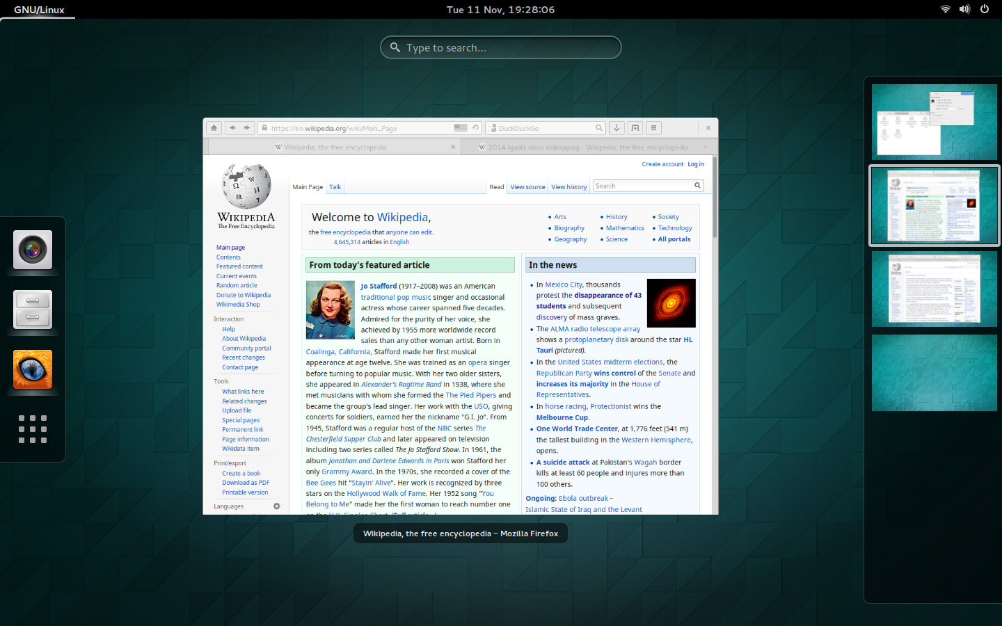 Gnome Shell 3.14 featuring dynamic workspaces while in overview mode.